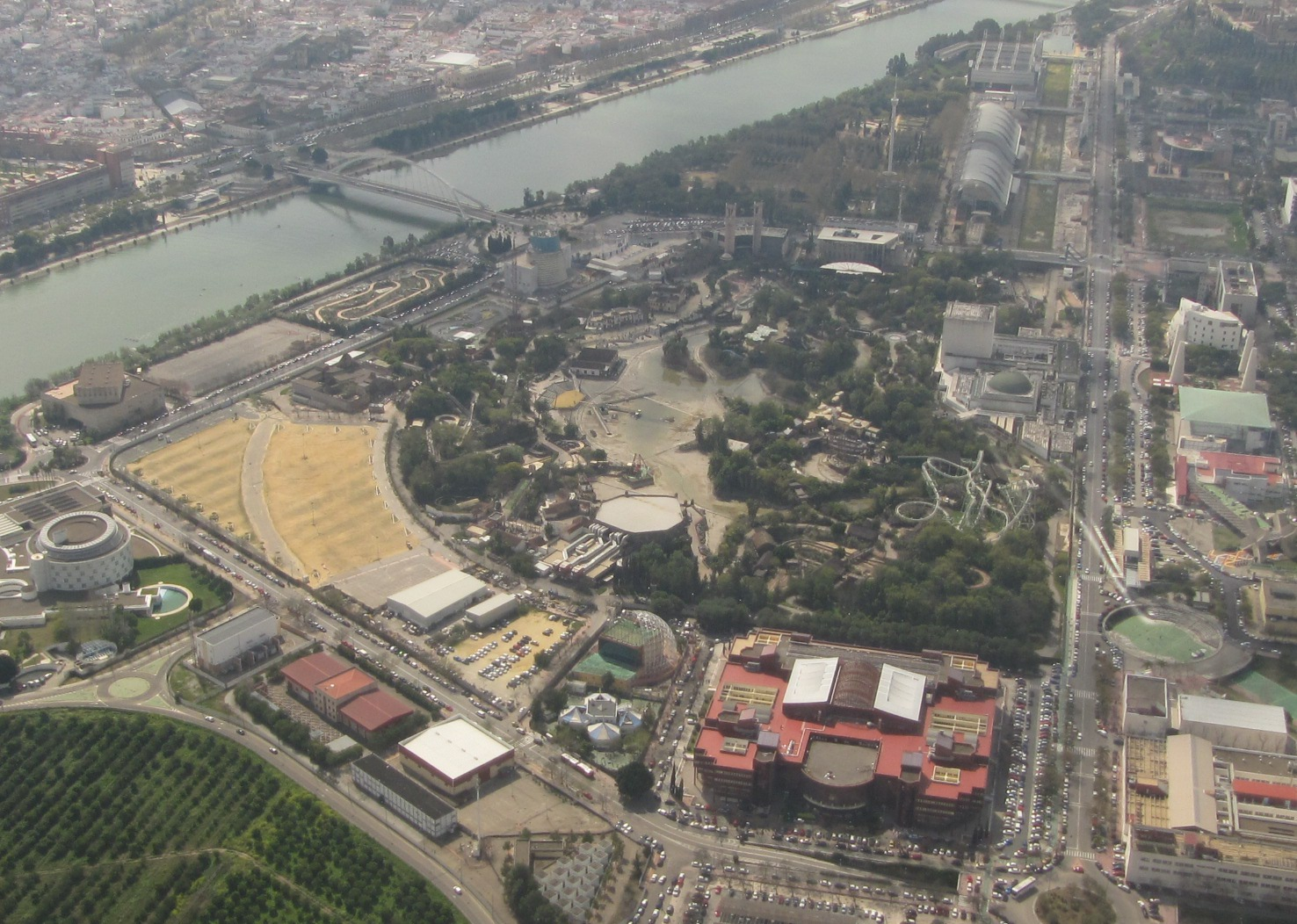 Isla Mágica